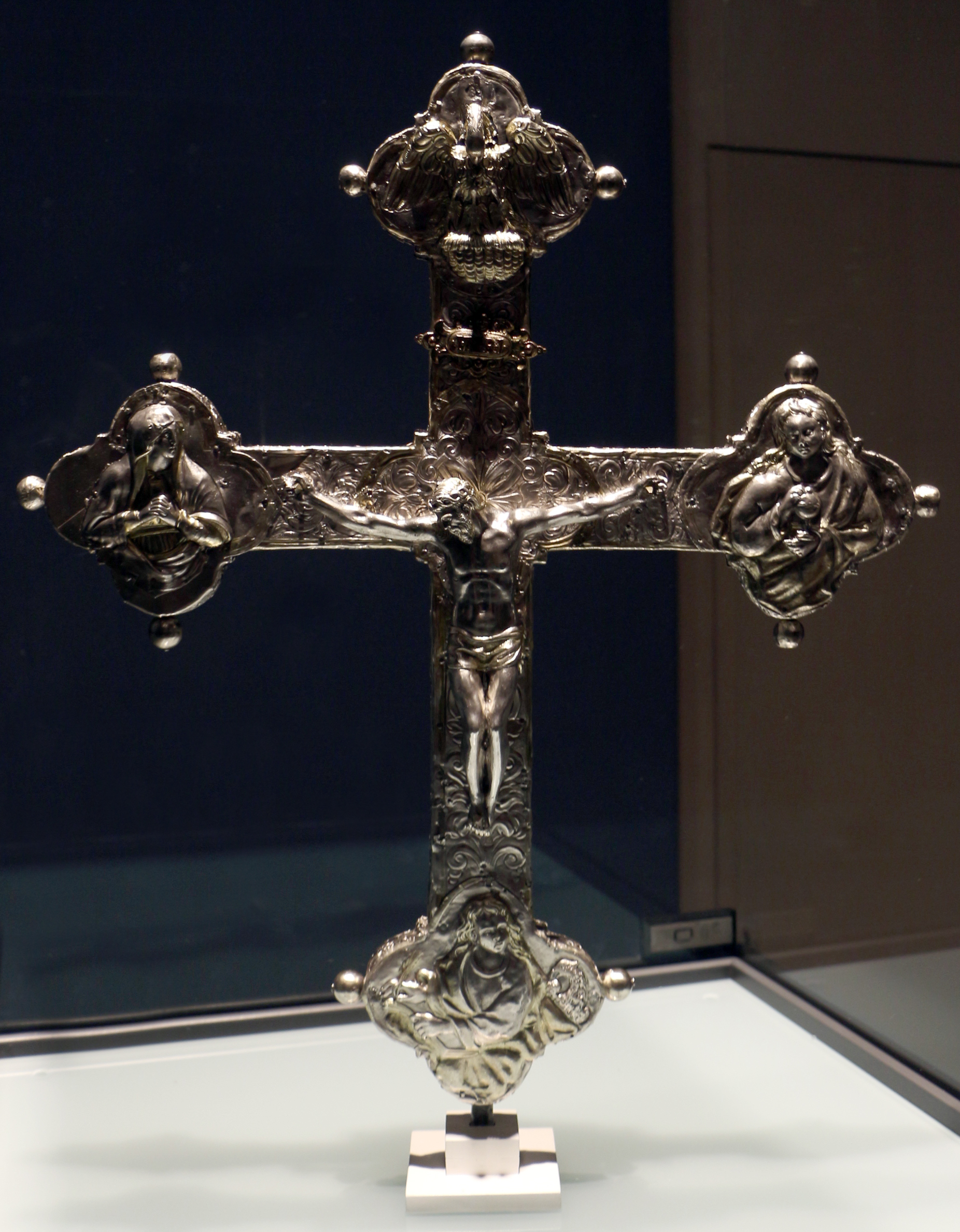 Restituzioni 2016